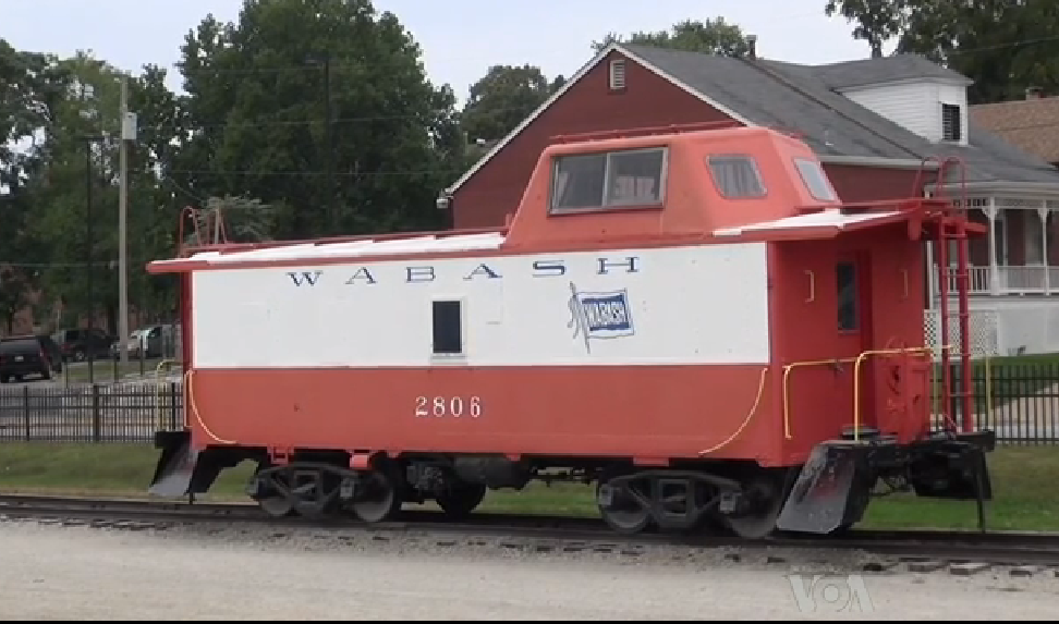 Wabash caboose on display in SEDALIA, MISSOURI. Screen capture from the video shown.